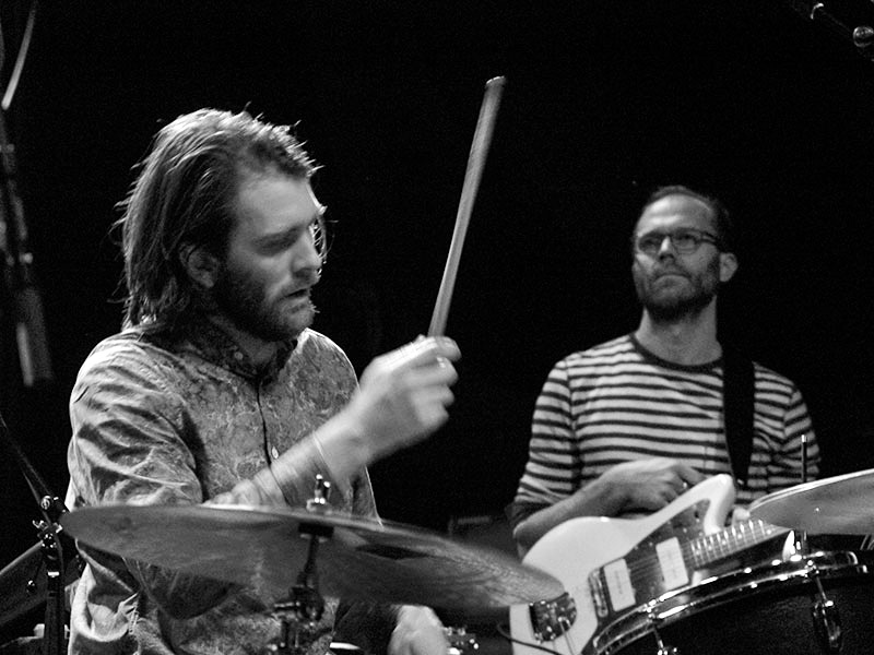 Andreas Werliin playing with Mats Gustafsson Fire Orchestra. Guitarist David Stackenäs to the right. (2015)